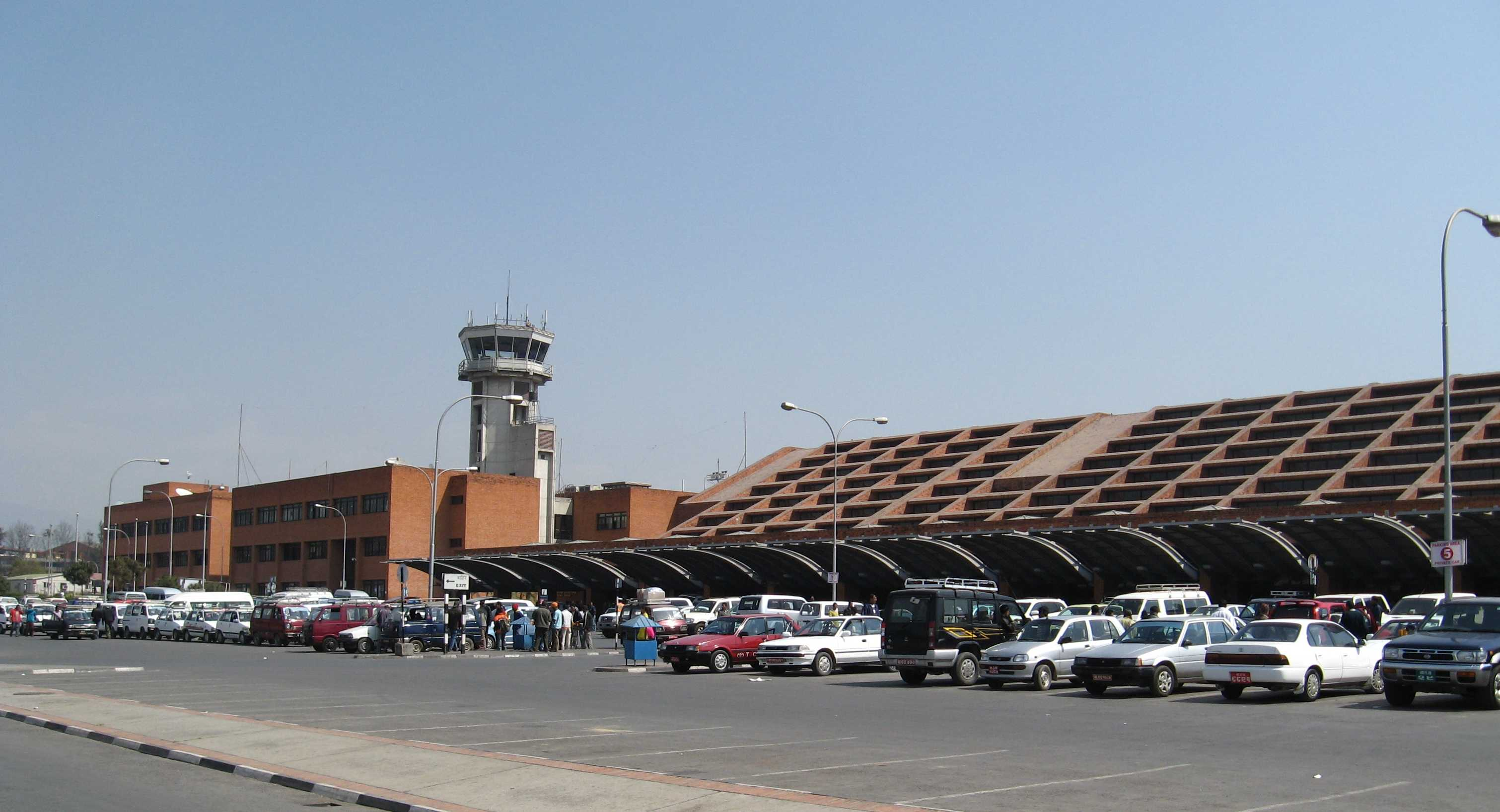 The international airport of Kathmandu.